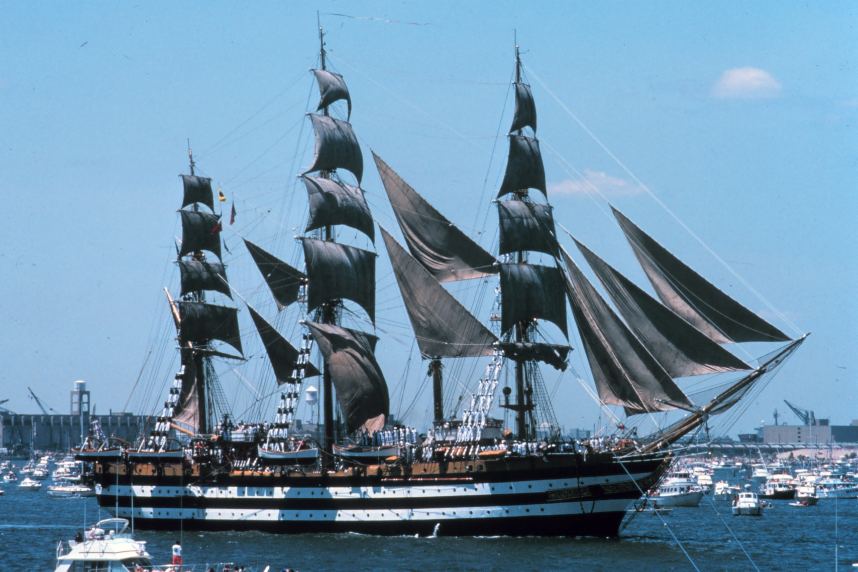 A tall ship in New York Harbor: Amerigo Vespucci at the ship parade in the NYC harbor at the United States Bicentennial festivities.